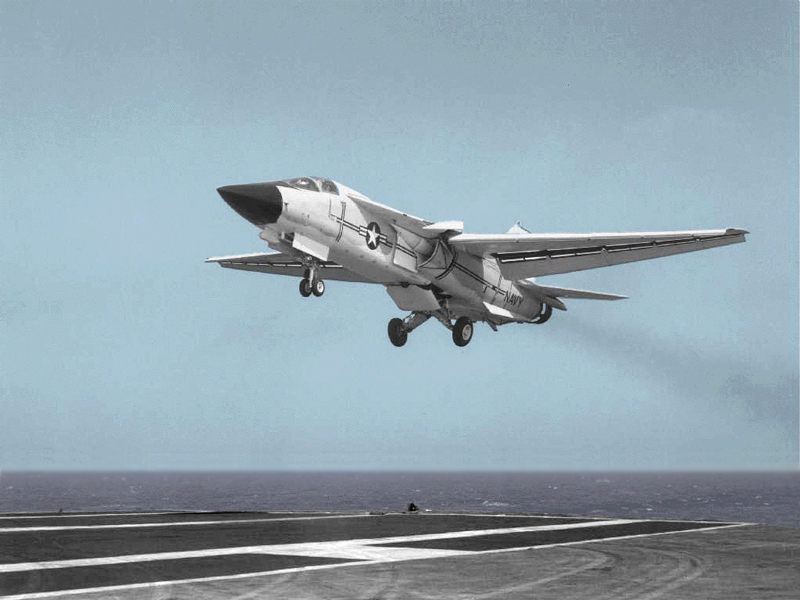 A General Dynamics F-111B (BuNo 151974) approaching the aircraft carrier USS Coral Sea (CVA-43) in July 1968. It was the only F-111B to perform carrier operations after completing arrestor proving tests at the Naval Air Test Center Patuxent River, Maryland (USA), in February 1968. It crash landed at NAS Point Mugu, California (USA), on 11 October 1968 and was subsequently scrapped.